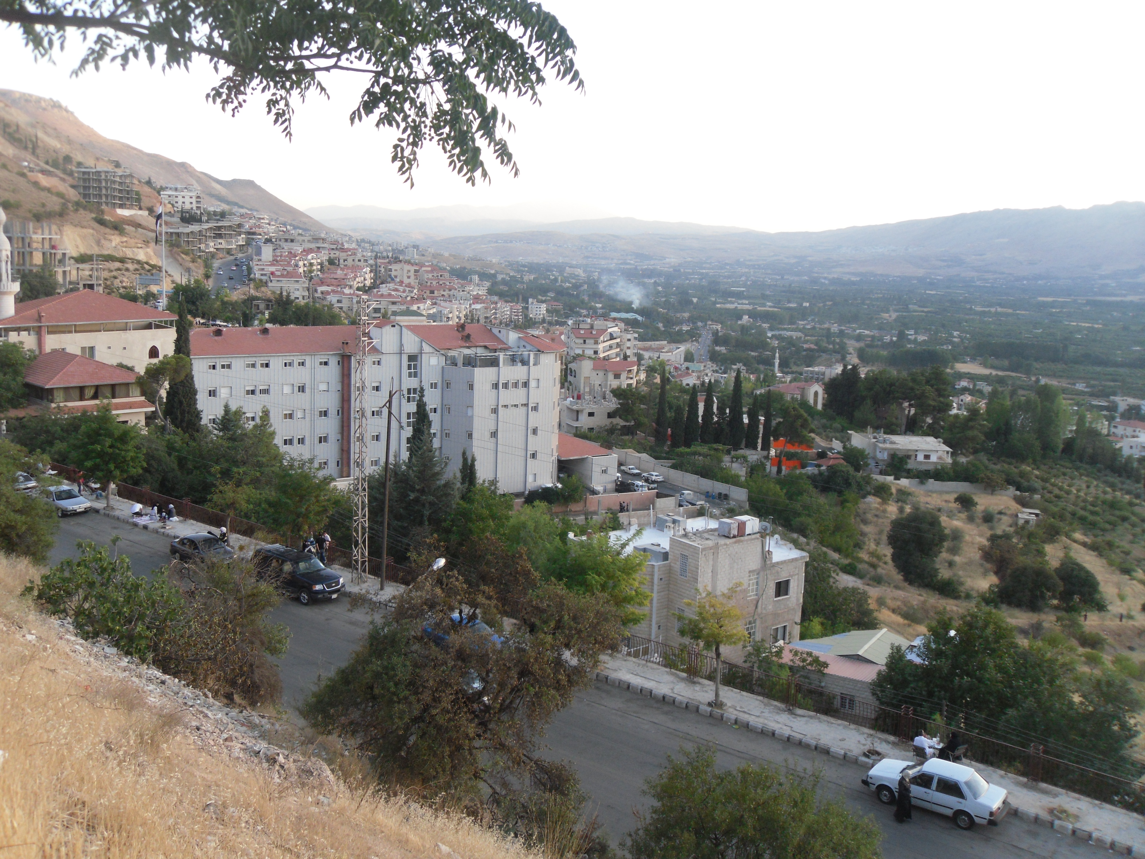 Bloudan